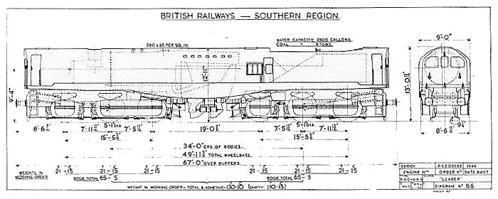 Diagram of the Leader locomotive. Drawn 1949 by British Railways, a nationalised (UK government) concern.